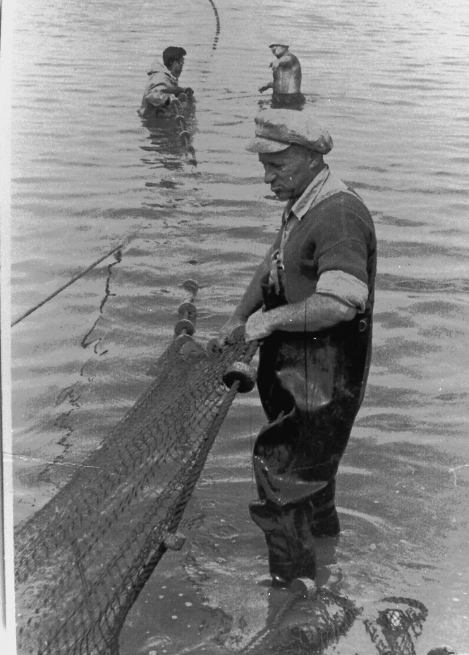 Fishing in the fish ponds, Agriculture in Israel